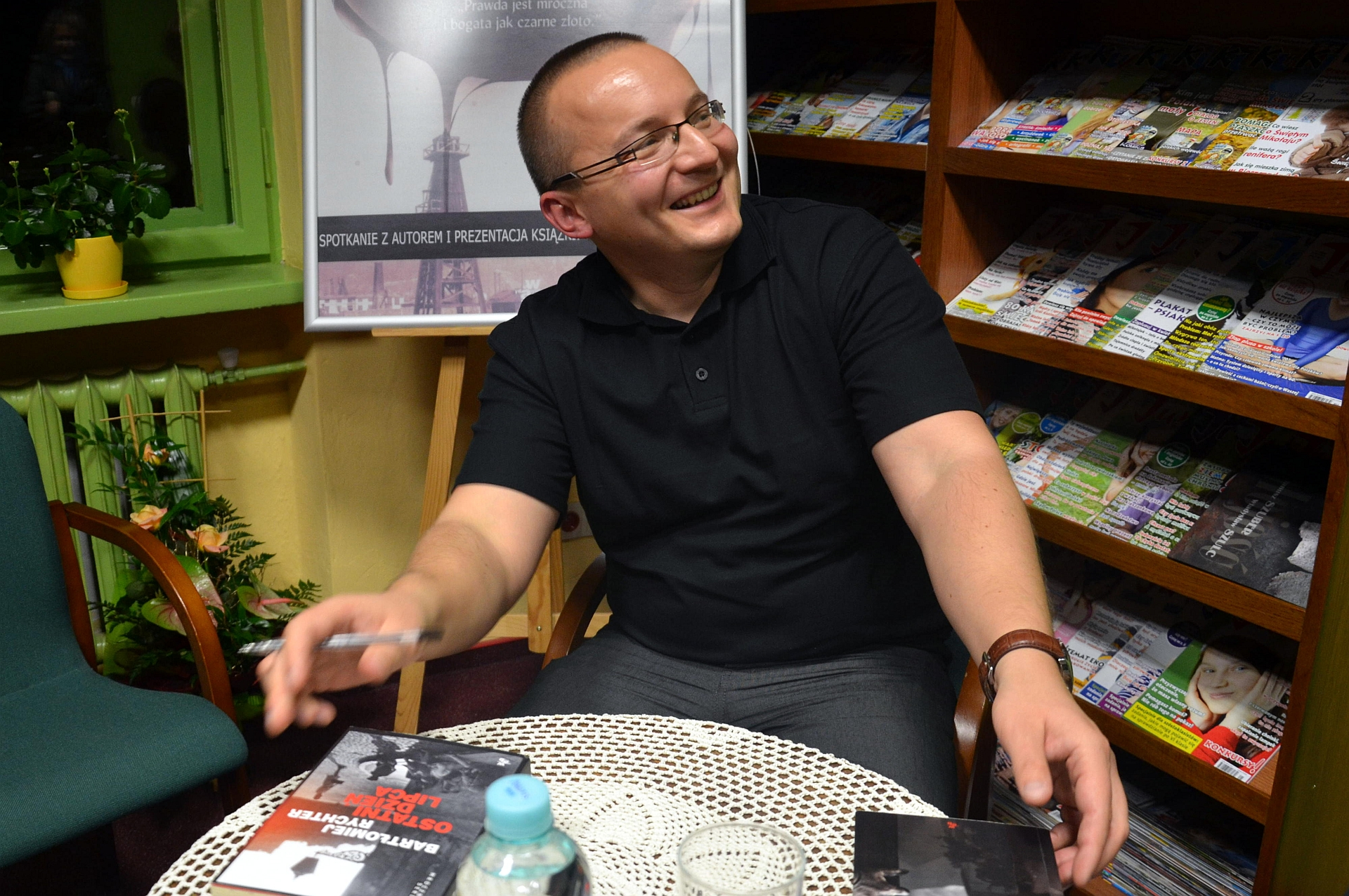 Bartłomiej Rychter